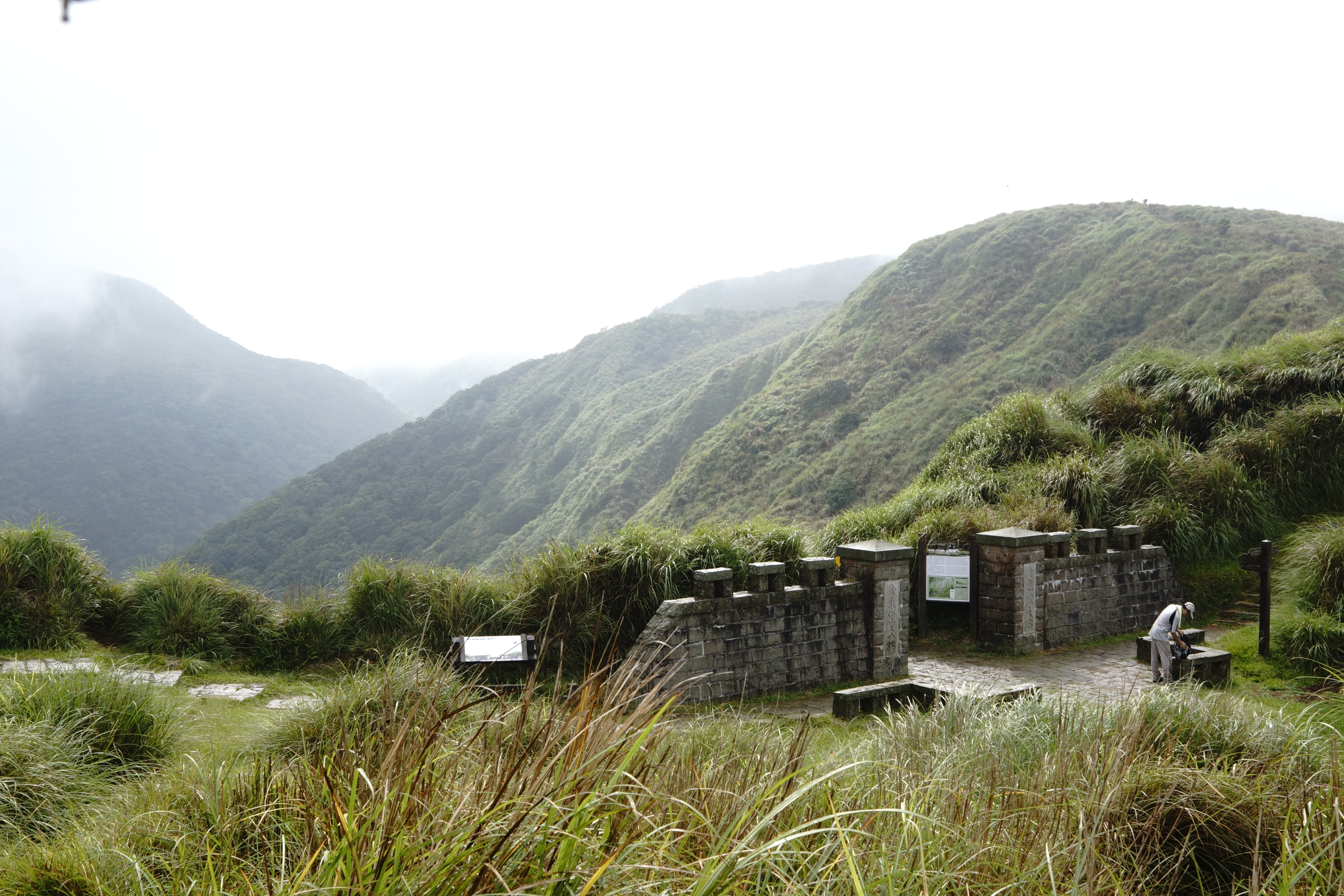 The entrance gate to the Jinbaoli Trail at Qingtiangang.